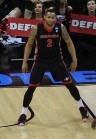 Bryn Forbes fires a three for the Spartans